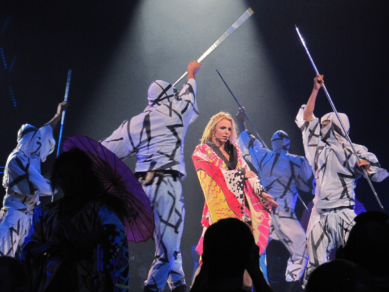 Britney Spears performing "Toxic" at the Femme Fatale Tour on July 26, 2011.